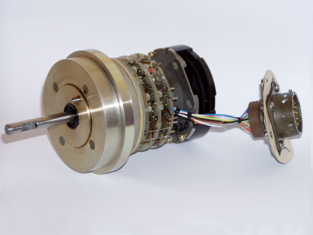 Opened up encoder device used for angle information of an air traffic control radar.